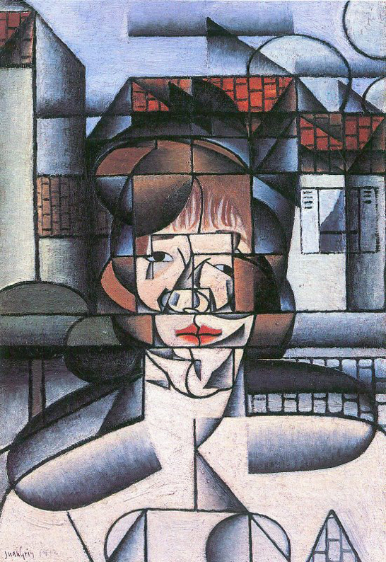 Juan Gris, Portrait Germaine Raynal, oil on canvas, 54.9 x 38.1 cm, private collection